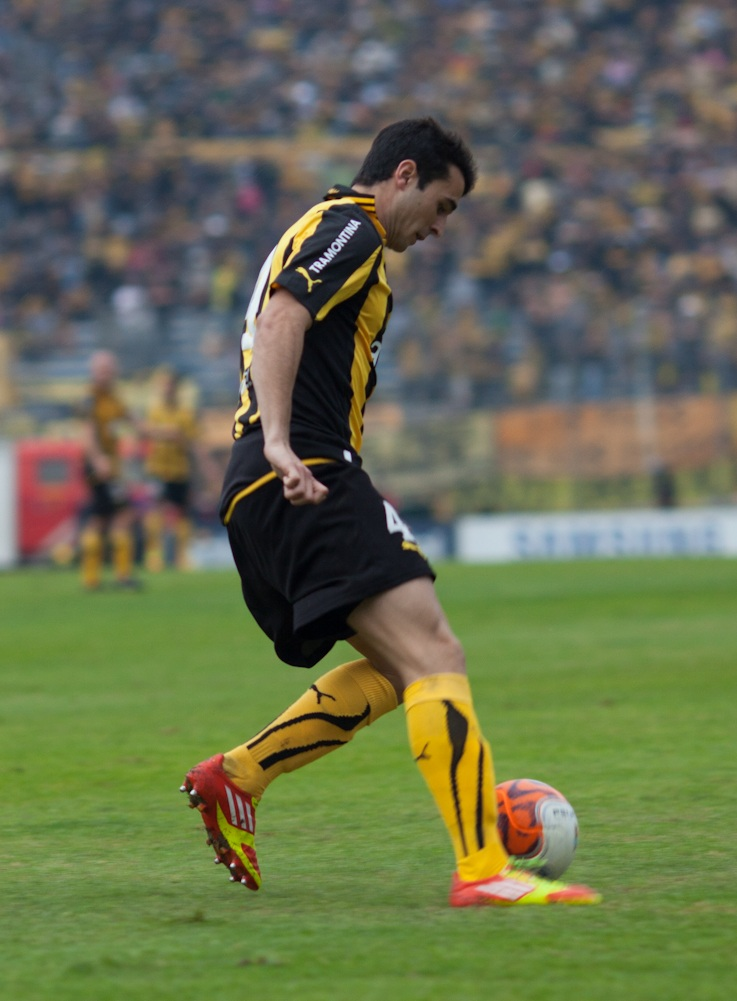 Uruguayan football player Alejandro González, during a uruguayan derby while playing for Peñarol, at the Estadio Centenario.